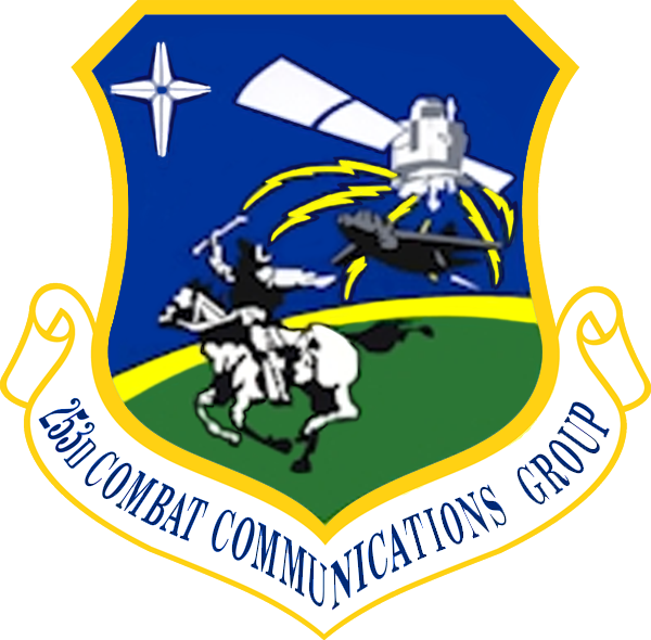 253 Combat Communications Group emblem, Massachusetts Air National Guard